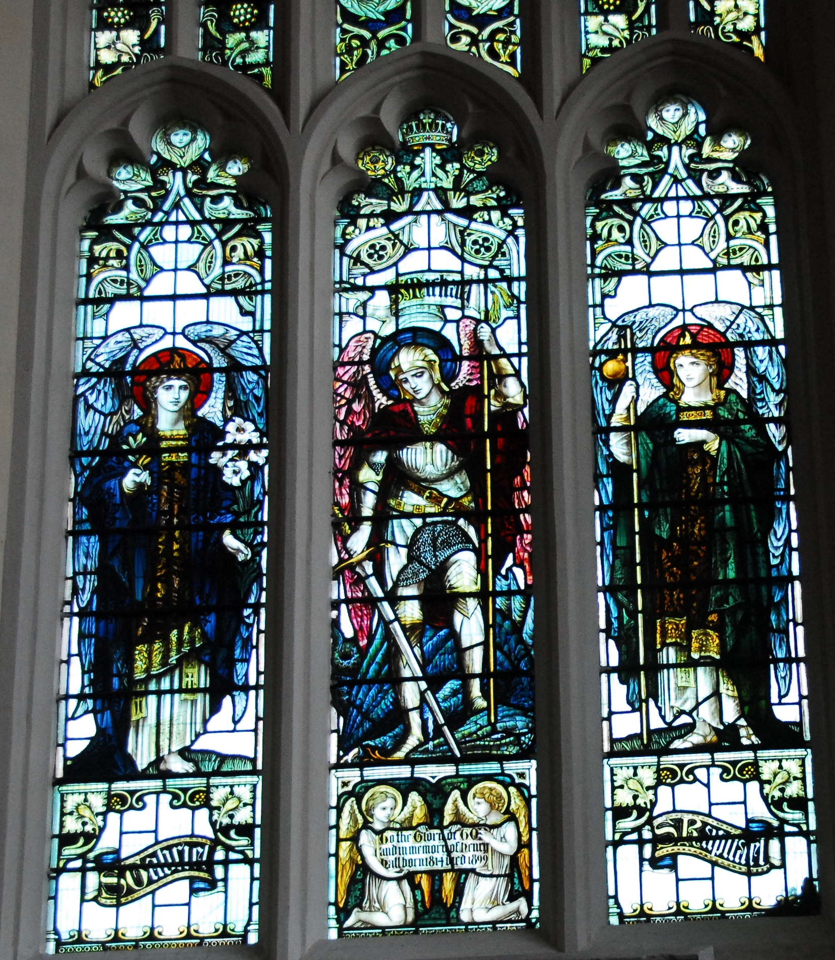 Window to north of high altar, Church of St Lawrence, Alton (1899)